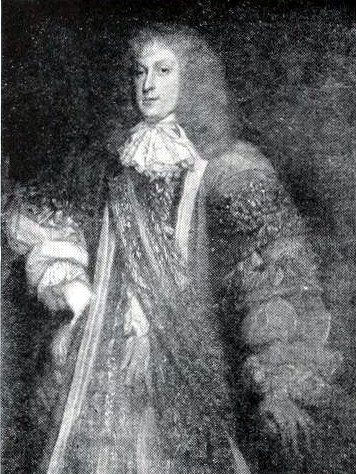 Sir John Corbet, 2nd Baronet of Stoke upon Tern and Adderley, Shropshire. Fought for the royalists in the English Civil War. B&w photo of late 17th century oil painting.